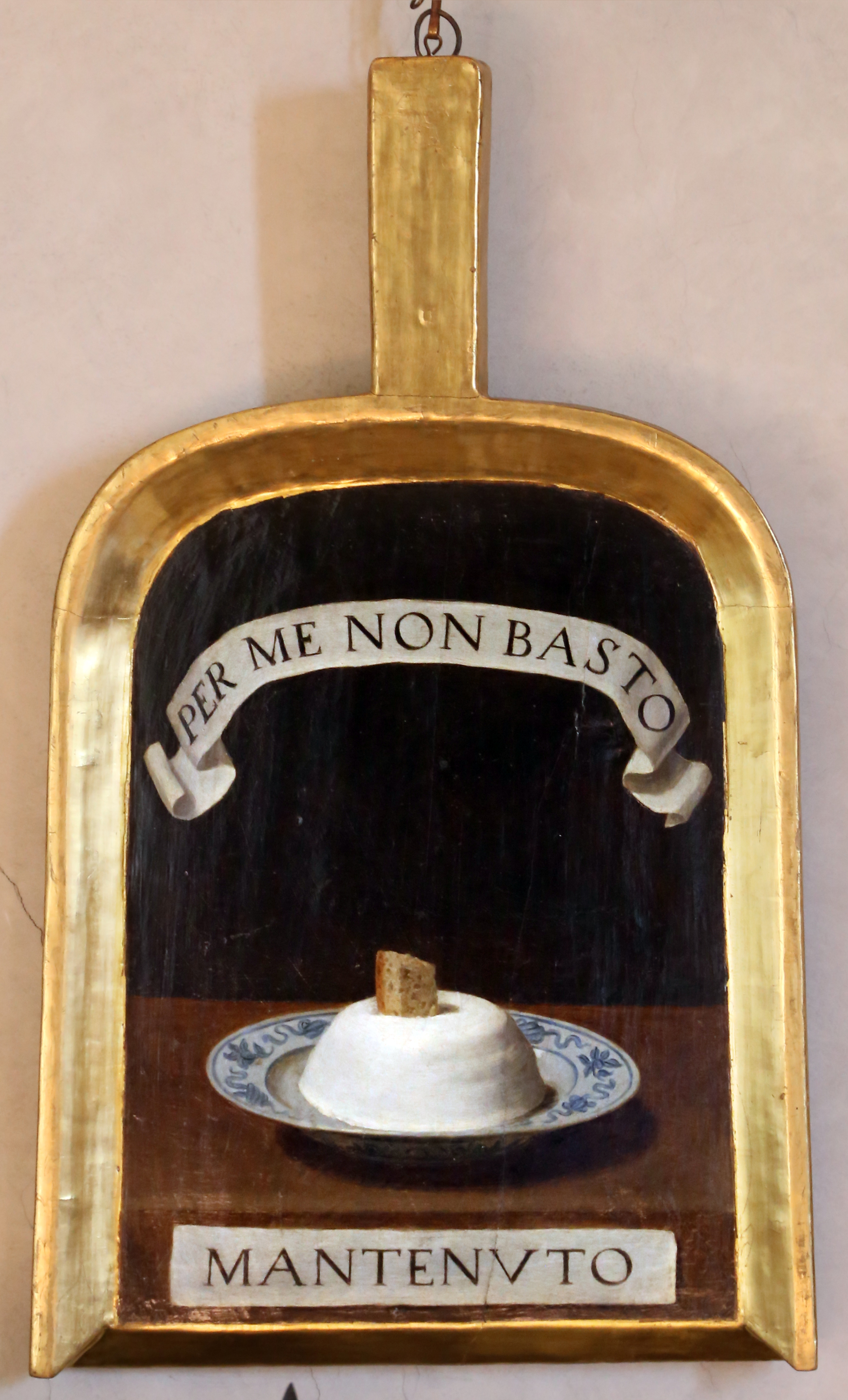 Shovels of Accademici della Crusca